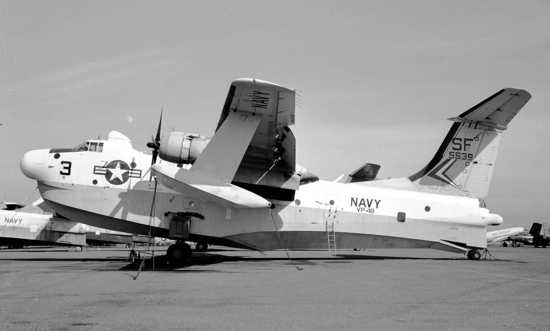 A U.S. Navy Martin SP-5B Marlin (BuNo 135539) of Patrol Squadron 48 (VP-48) at Naval Air Station North Island, California (USA), on 27 January 1967.